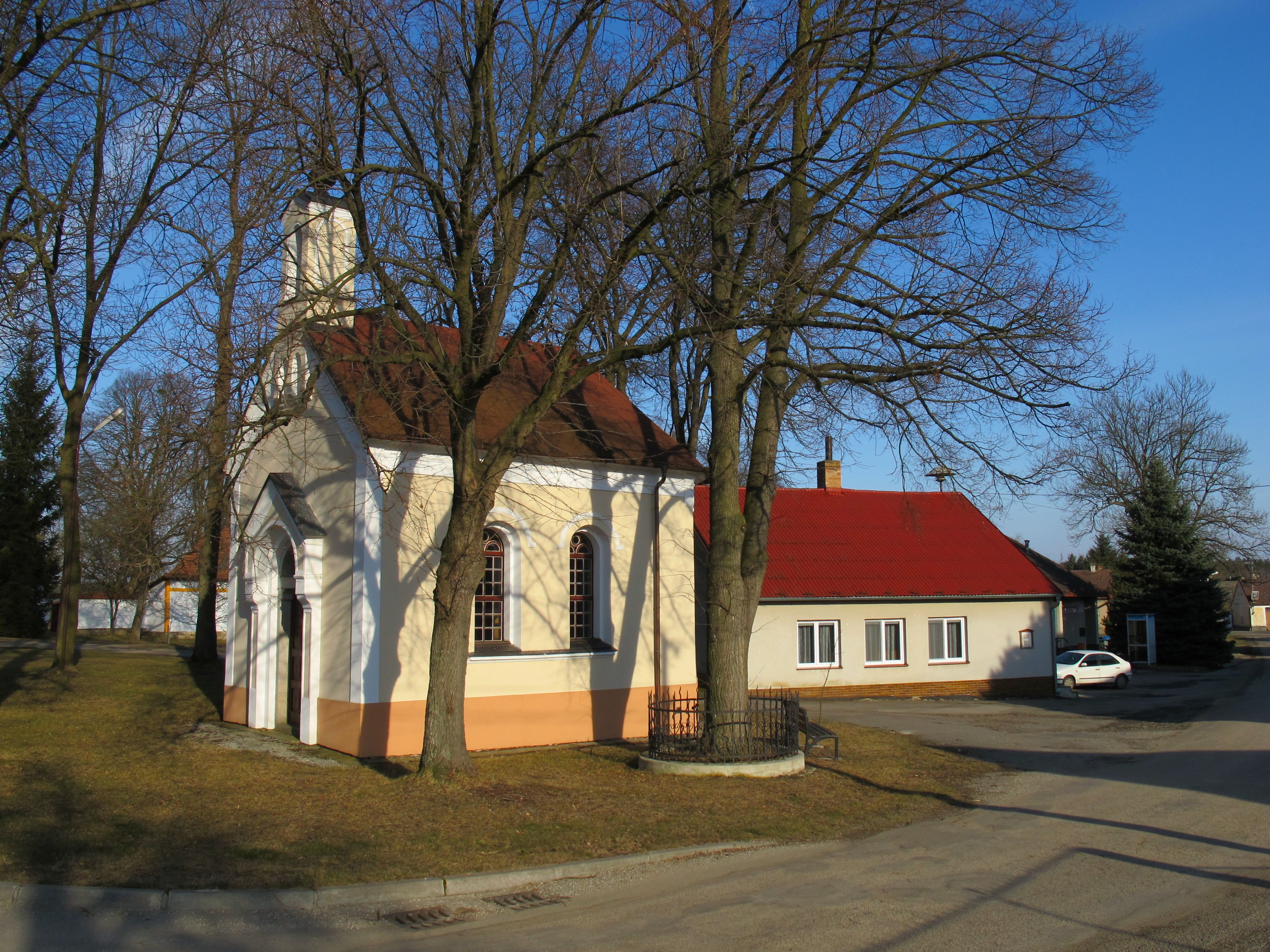 Chapel of Saint Bartholomew in the village of Záhoří, Jindřichův Hradec District, South Bohemia, Czech Republic.